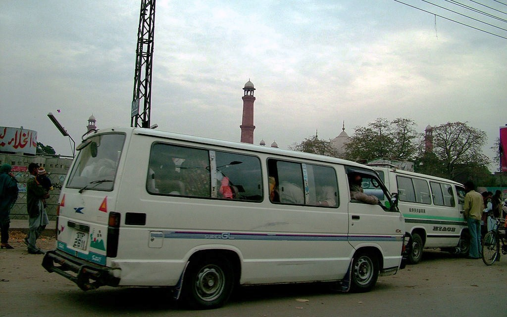 Mini Vans (The Flying Coach)